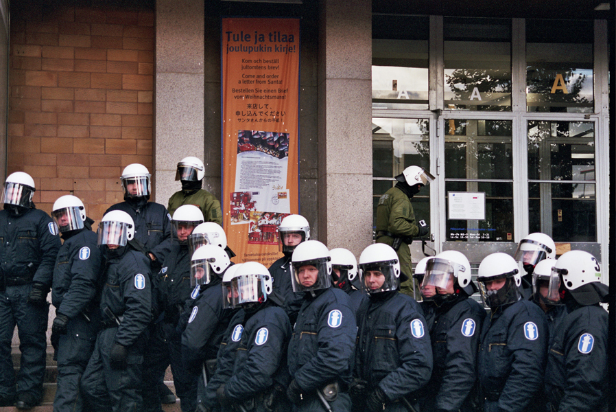 Smash Asem demonstration